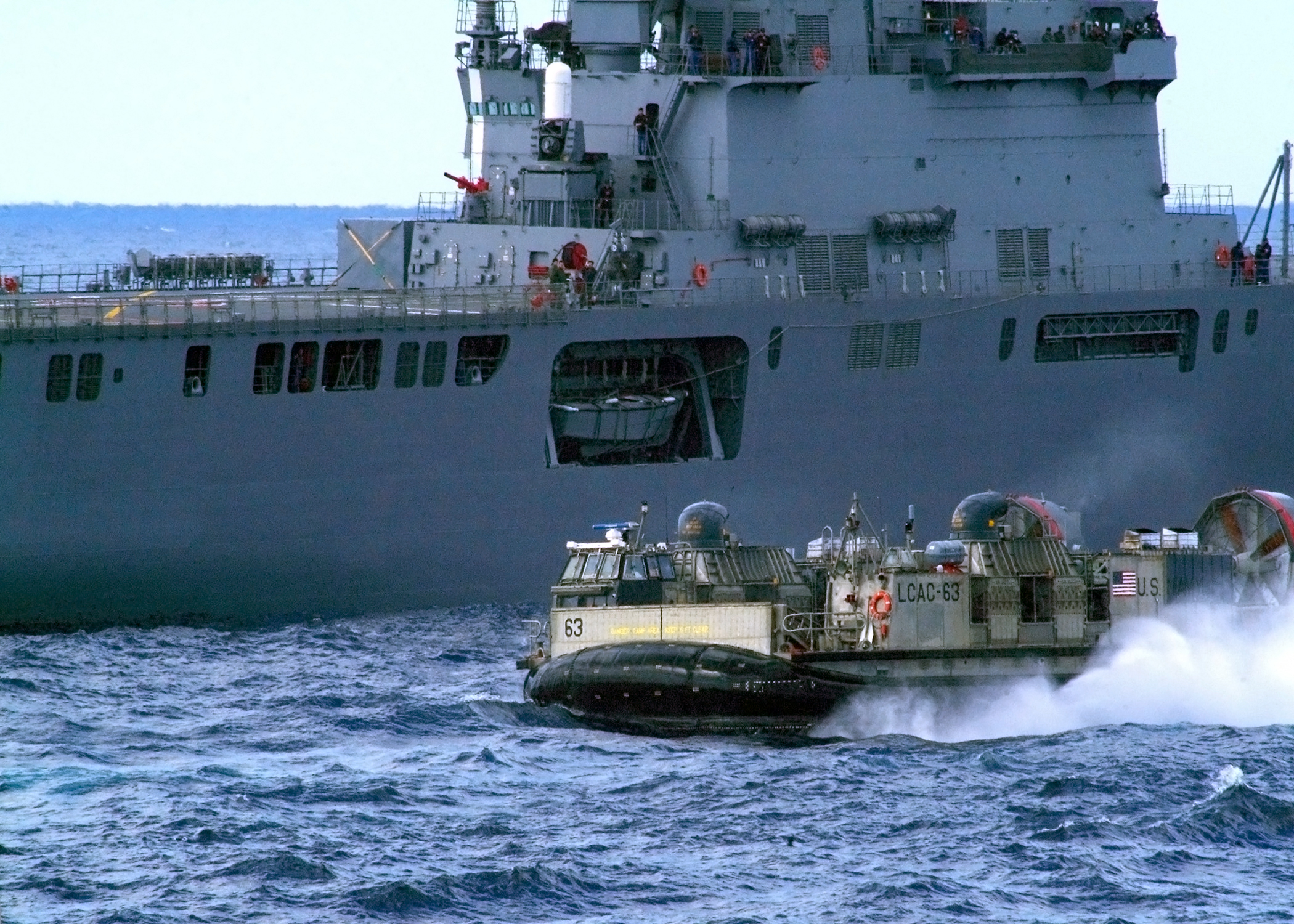 PACIFIC OCEAN (Mar. 7, 2007) -- A U.S. Navy Landing Craft Air Cushioned vehicle (LCAC) passes by JDS Ohsumi during LCAC operations as a part of Transport Exercise (TRANSPORTEX) 2007. TRANSPORTEX is a training exercise designed to enhance the maritime transport proficiency and interoperability of the U.S. Navy and the Japan Maritime Self Defense Force in support of humanitarian relief missions.